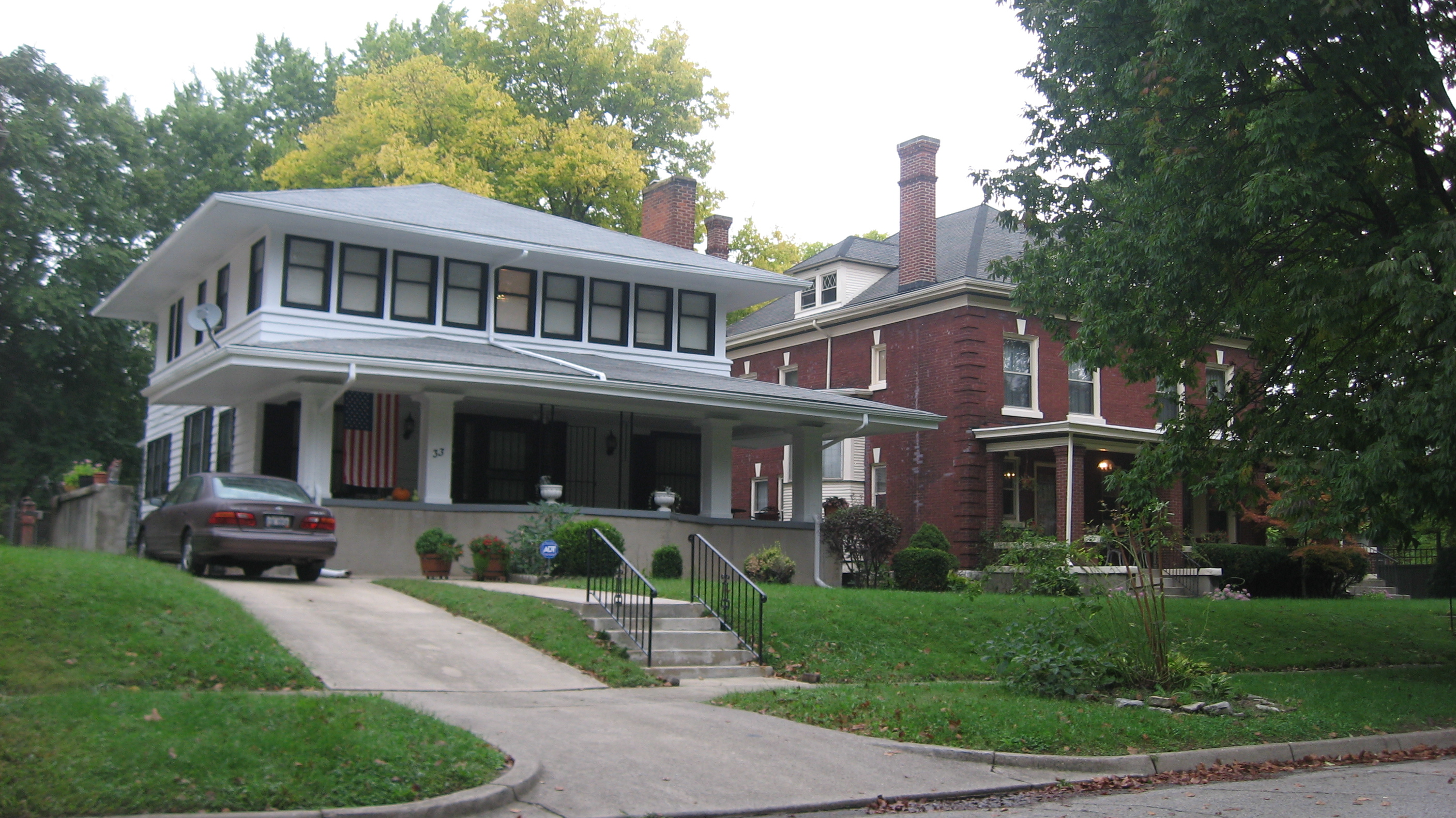 Houses on the northern side of the first block of Yale Avenue in Dayton, Ohio, United States. This block is part of the Dayton View Historic District, a historic district that is listed on the National Register of Historic Places.